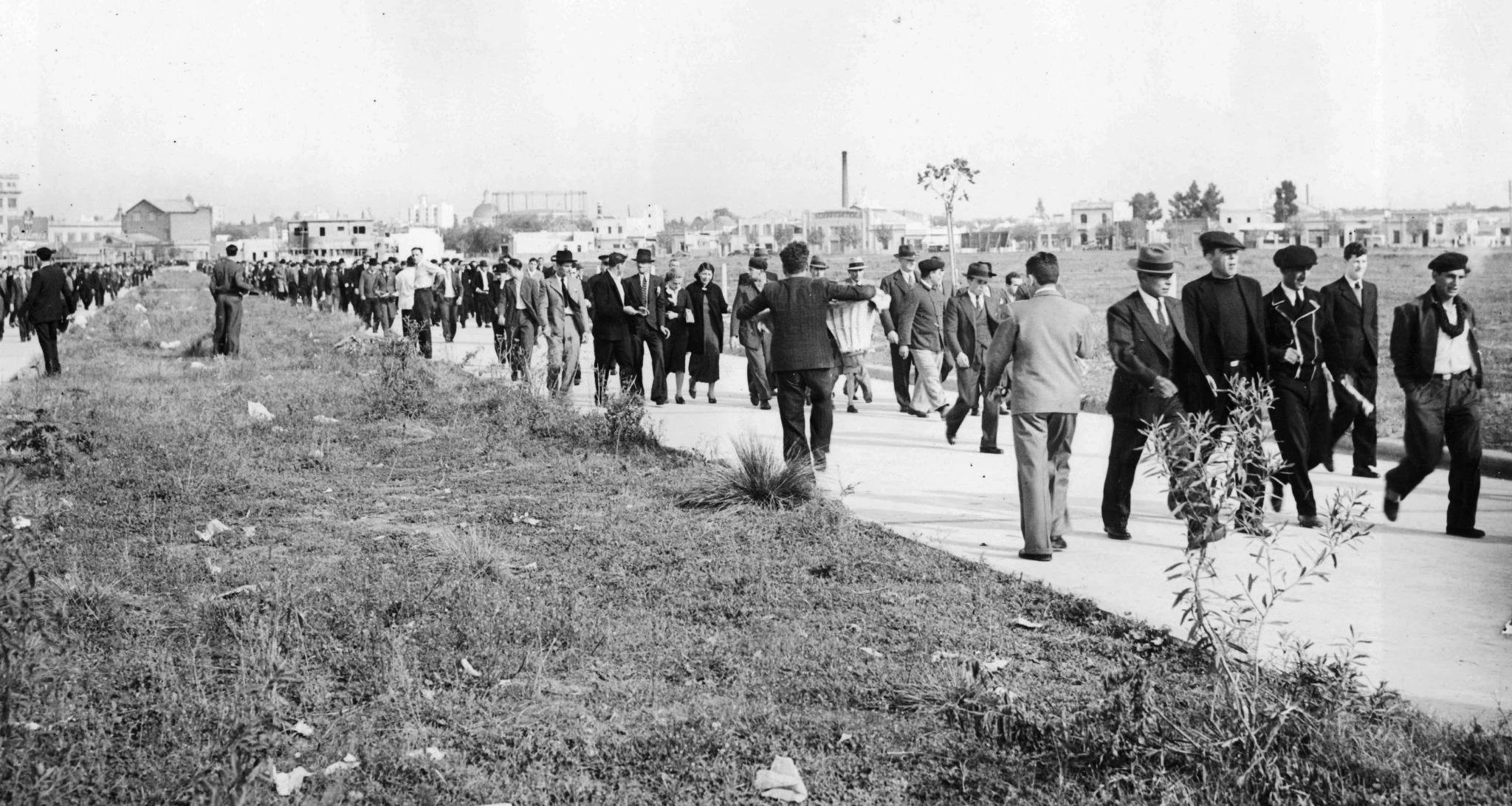 River Plate supporters walking towards the stadium in 1938. Lidoro J. Quinteros Ave., Belgrano, Buenos Aires.